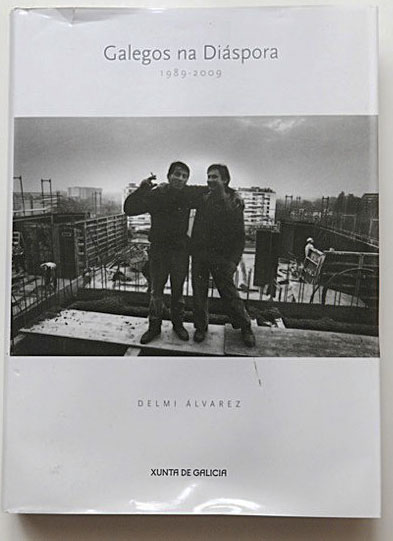 Galegos na Diáspora 1989-2009 is a long term documentary about Galicians around the world.